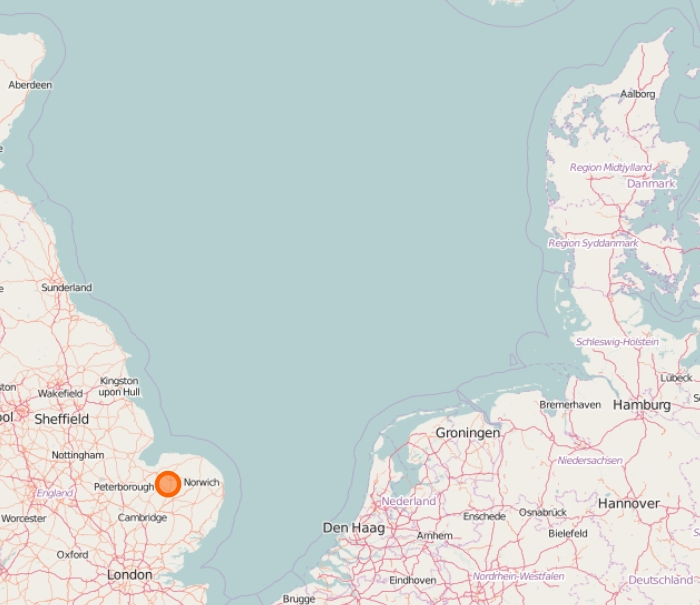 Cockley Cley, Norfolk, location.